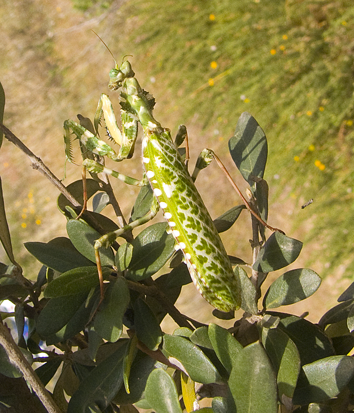 Blepharopsis mendica